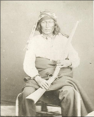 Photographer, W. R. Cross, circa. 1882. National Archives, public domain.